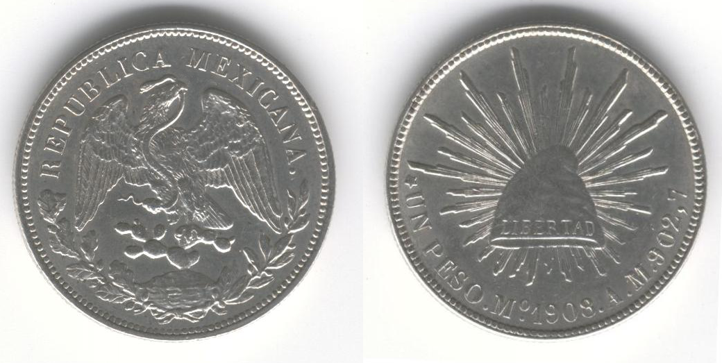 1 peso coin of Porfiriato, Silver, 1908.